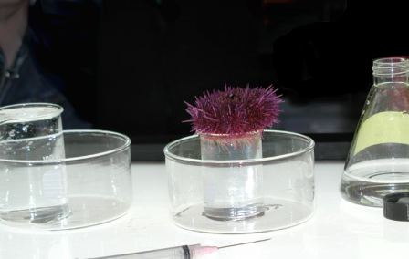 View of laboratory method utilizing a purple sea urchin to test for water pollution (whole effluent toxicity method).